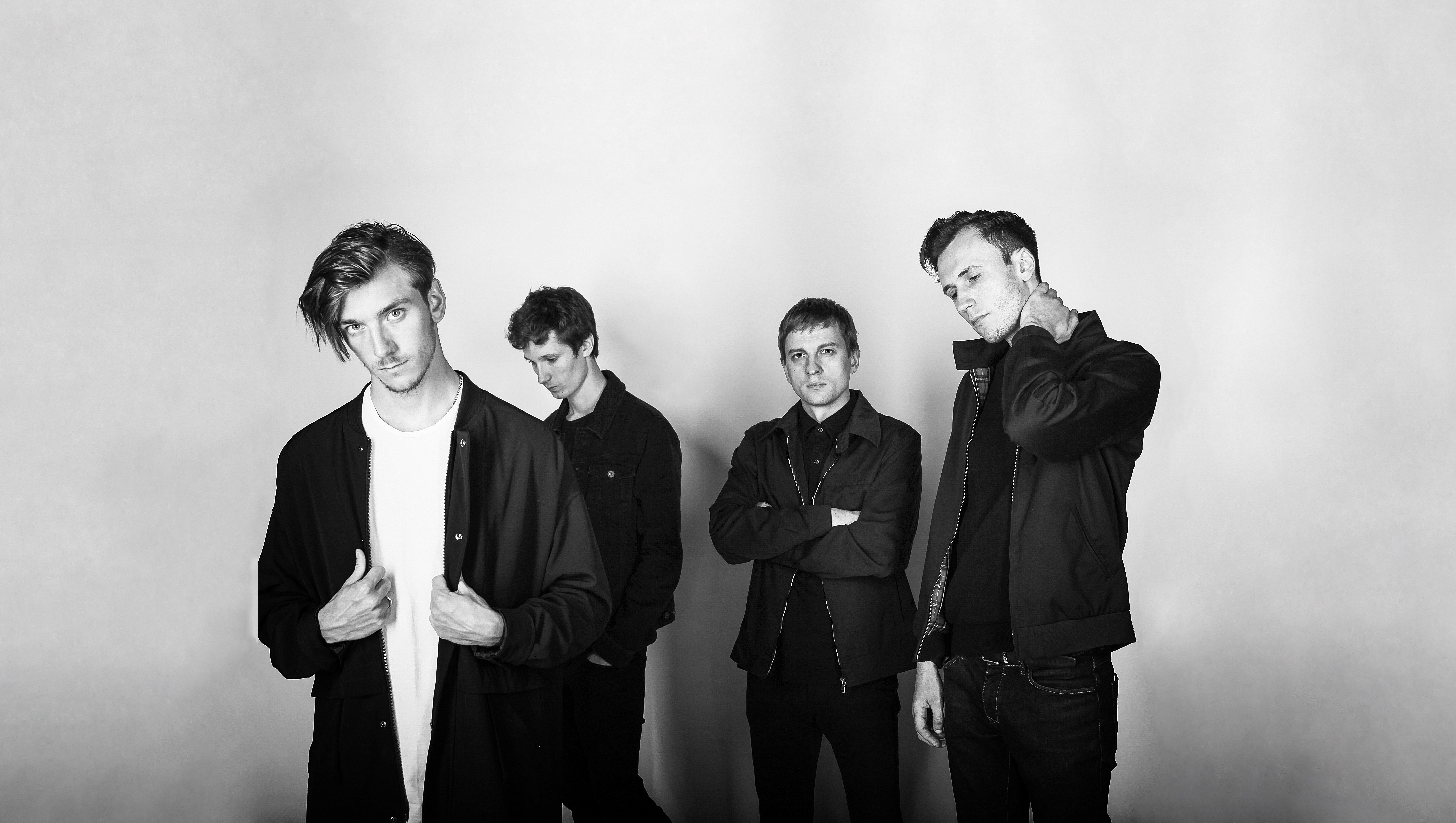 colaars music band